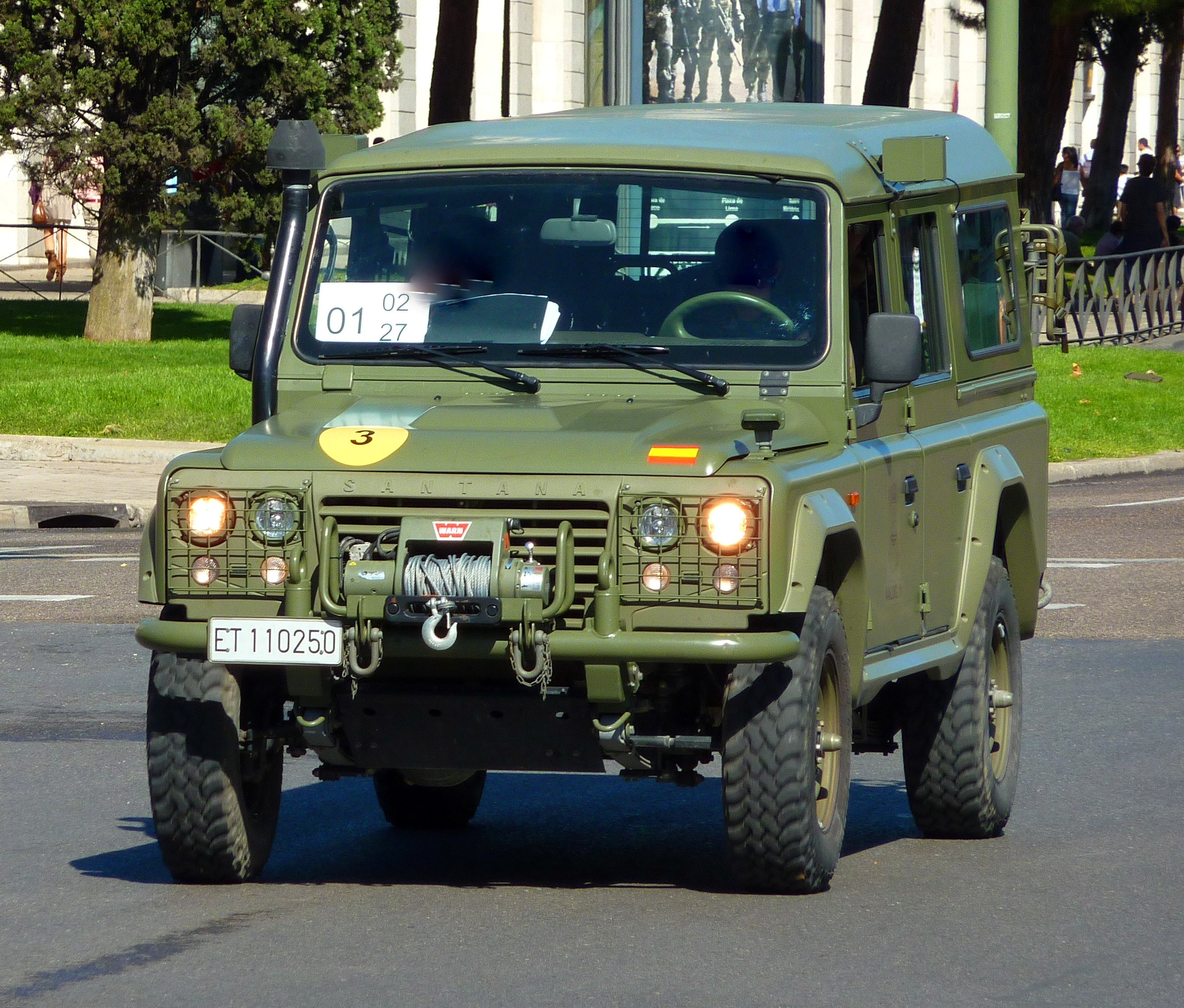 Santana Aníbal of the Spanish Army.